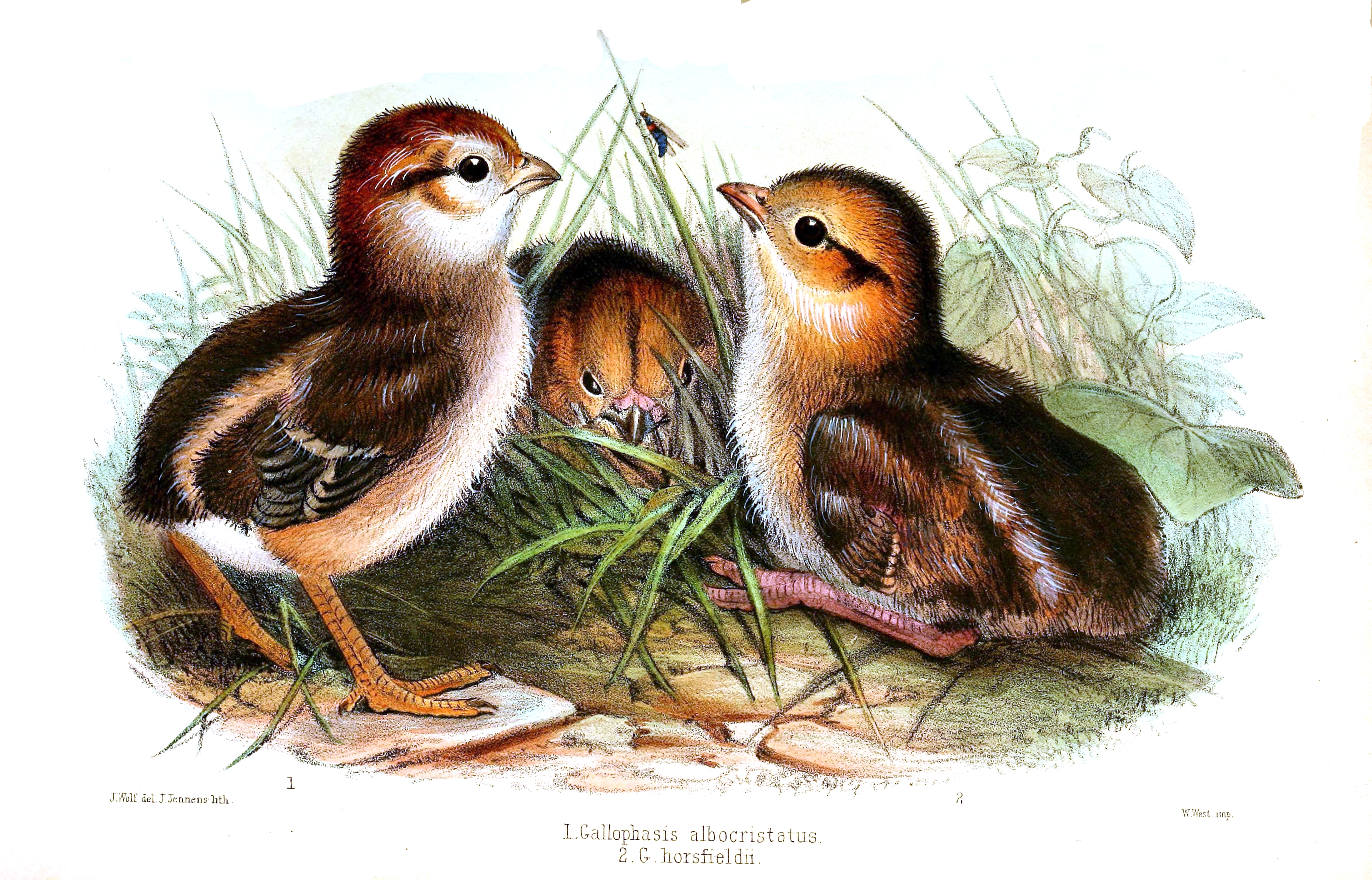 Chicks of Kalij Pheasant